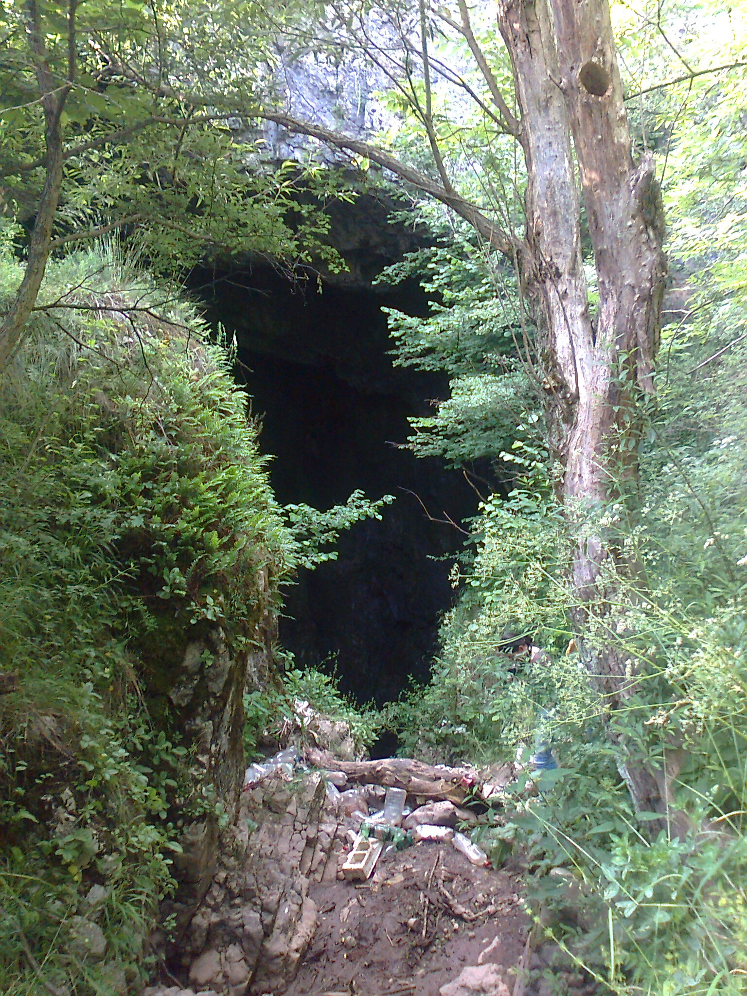 Câmpeneasa cave in Izbuc, Romania